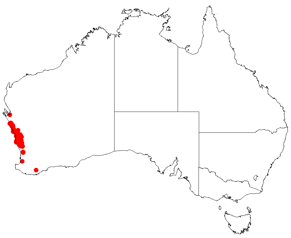 Hakea auriculata Occurrence data downloaded from Australasian Virtual Herbarium on 22 November 2018 using